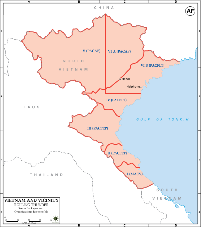 Rolling Thunder Route Package Organisation